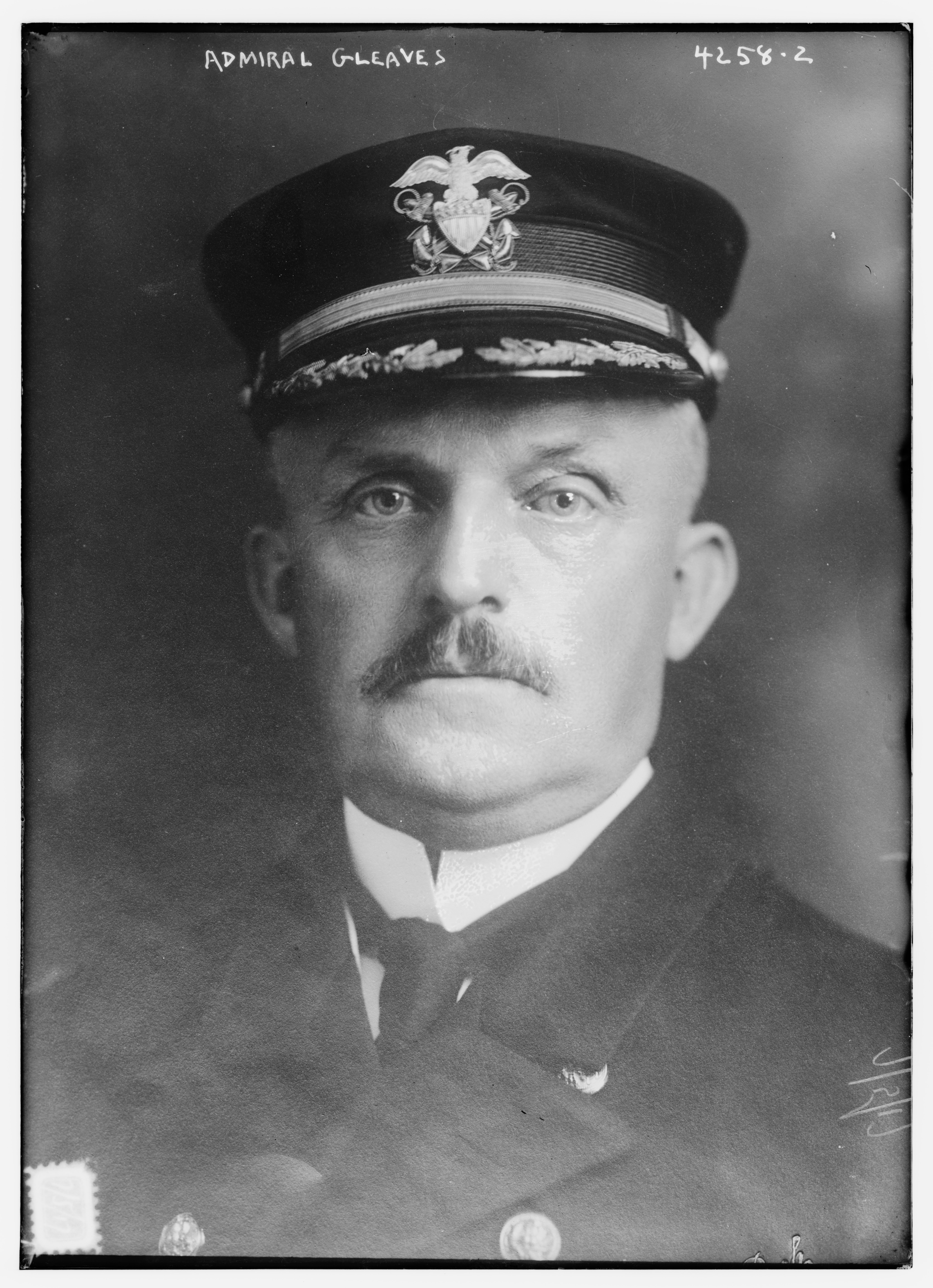 Albert Gleaves in 1917